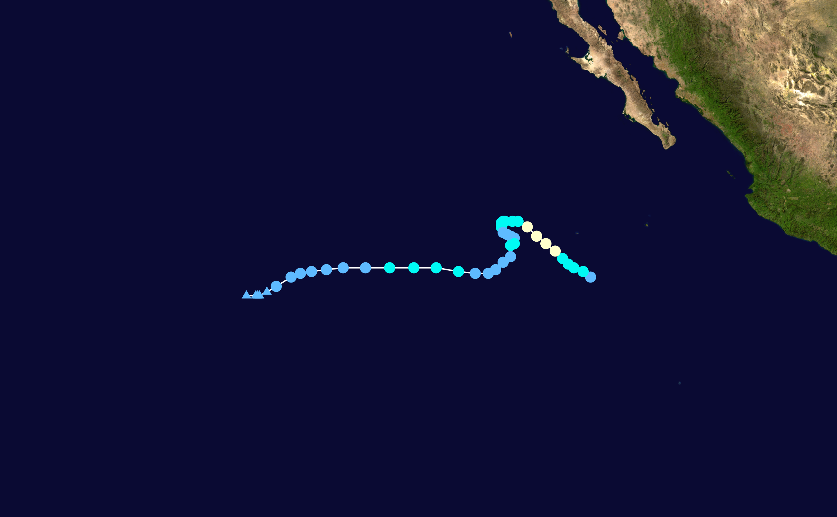 Track map of Hurricane Kristy of the 2006 Pacific hurricane season. The points show the location of the storm at 6-hour intervals. The colour represents the storm's maximum sustained wind speeds as classified in the Saffir–Simpson scale (see below), and the shape of the data points represent the nature of the storm, according to the legend below. Saffir–Simpson scale Tropical depression≤38 mph≤62 km/h Category 3111–129 mph178–208 km/h Tropical storm39–73 mph63–118 km/h Category 4130–156 mph209–251 km/h Category 174–95 mph119–153 km/h Category 5≥157 mph≥252 km/h Category 296–110 mph154–177 km/h Unknown Storm type Tropical cyclone Subtropical cyclone Extratropical cyclone / Remnant low / Tropical disturbance / Monsoon depression